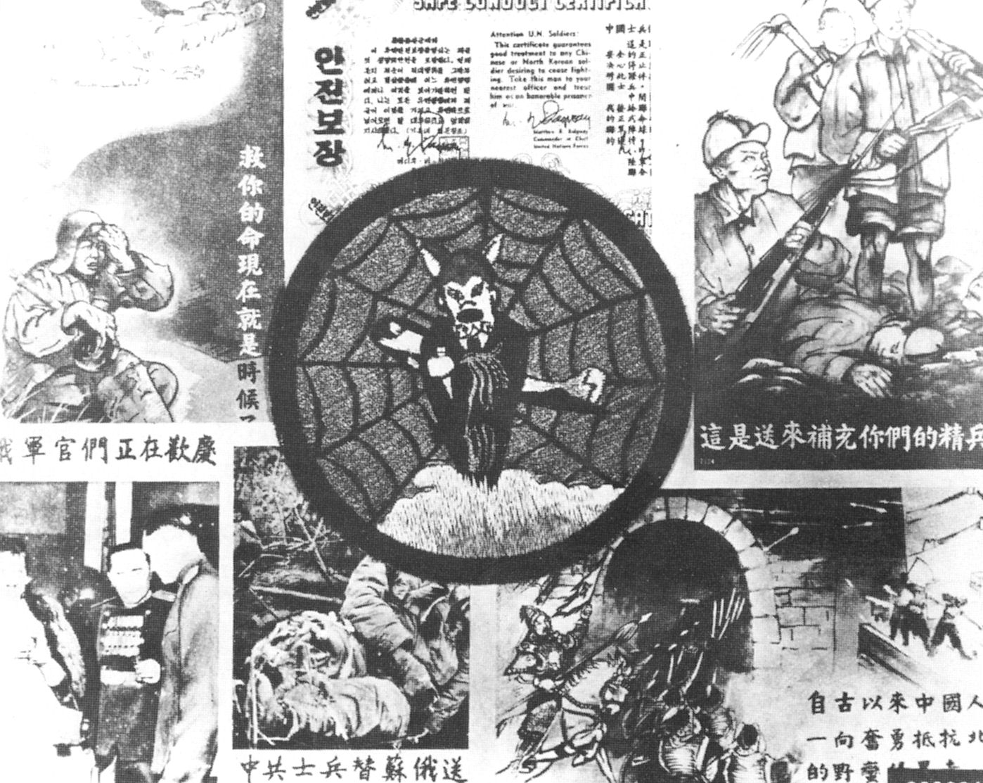 ARCS PSYWAR Propaganda Leaflet - Korea